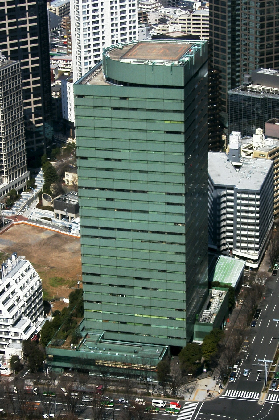 Green_Tower_Building_Tokyo Japan